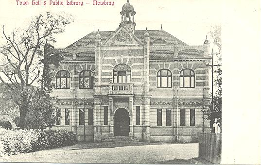 Public Library and Town Hall in Mowbray, Cape Town, South Africa This media shows a South African Protected Site with SAHRA file reference 9/2/018/0081.